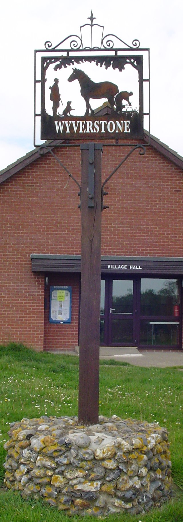 Signpost in Wyverstone